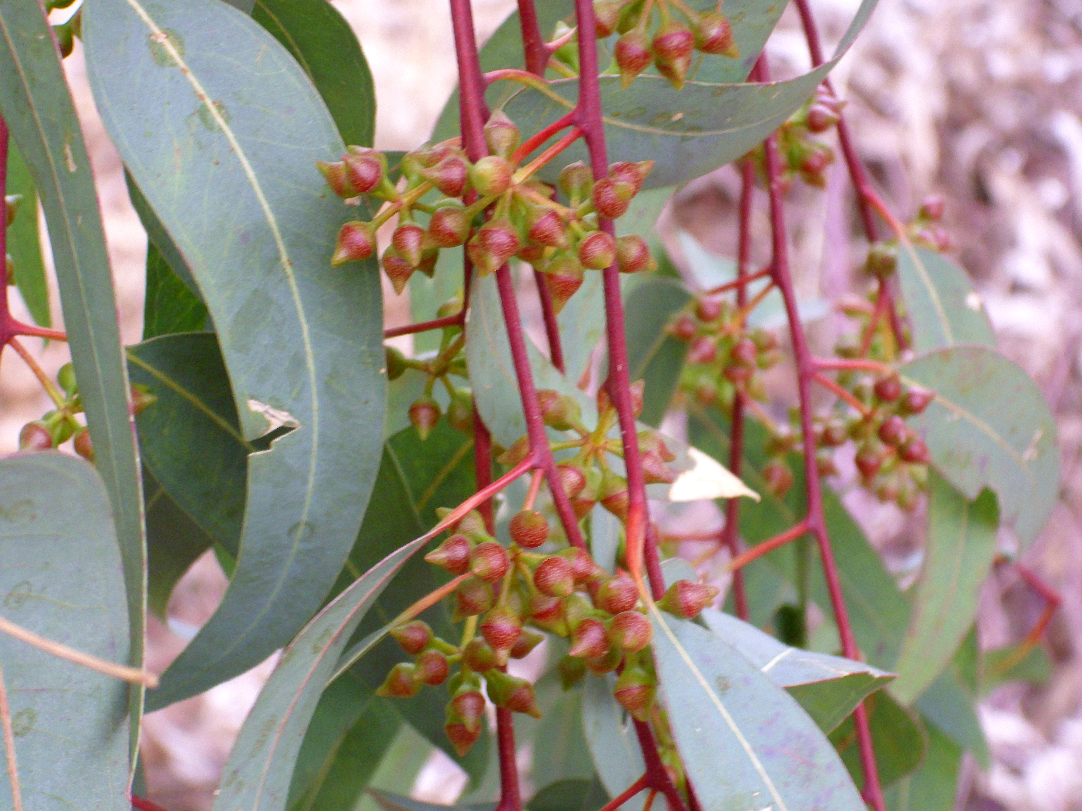 Eucalyptus camaldulensis leaves and blossoms, Dehesa Boyal de Puertollano, Spain